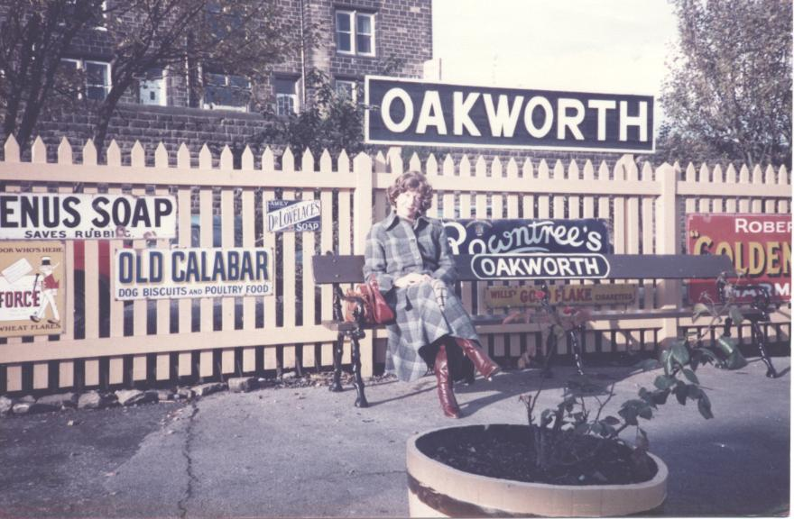 Vintage advertising boards at Oakworth railway station, West Yorkshire. A similar view of the station can be seen in the Sherlock Holmes episode "The Final Problem" starring Jeremy Brett.